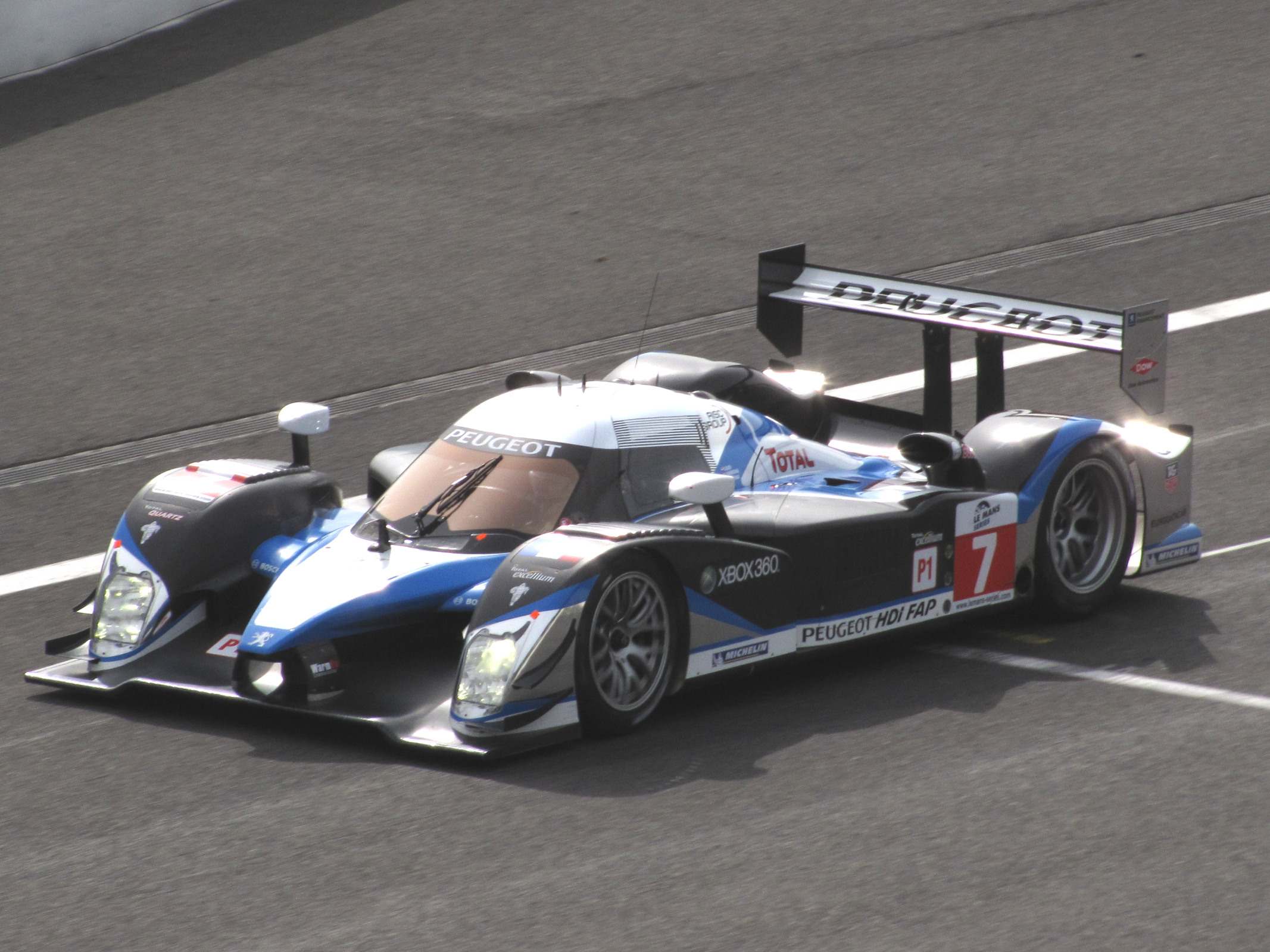 Peugeot 908 HDi FAP on start-finish straight in training session of 1000 km Spa 2009.